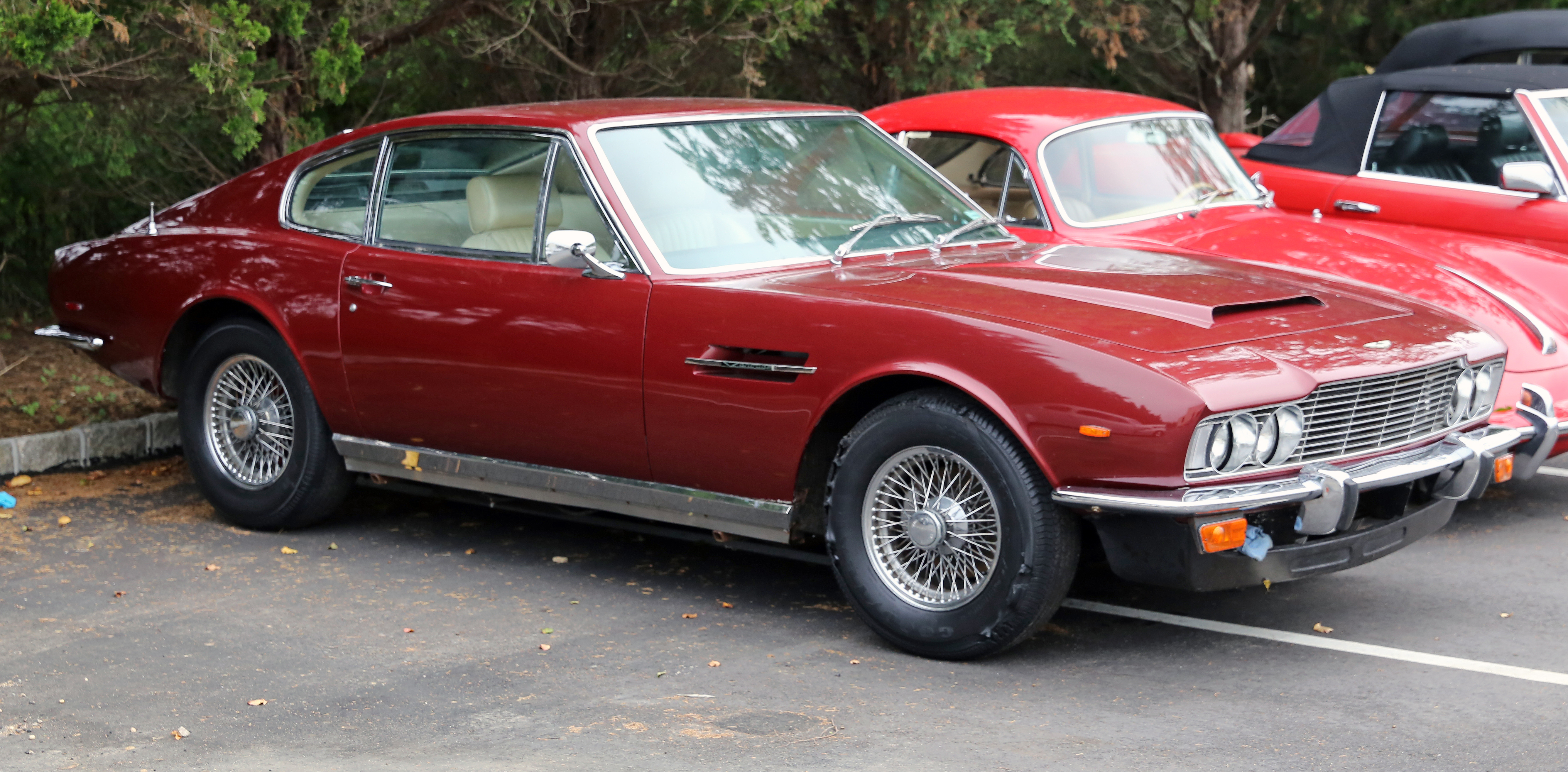 A 1971 Aston Martin DBS Vantage (six-cylinder). Chassis number DBS/5782/LC and engine number 400/4859/SVC, "SVC" referring to the Vantage-spec engine and "LC" to it being left-hand-drive and equipped with a "Coolair" system - which seems to be some sort of air conditioning. I don't know what may have happened to that shredded front right tire?